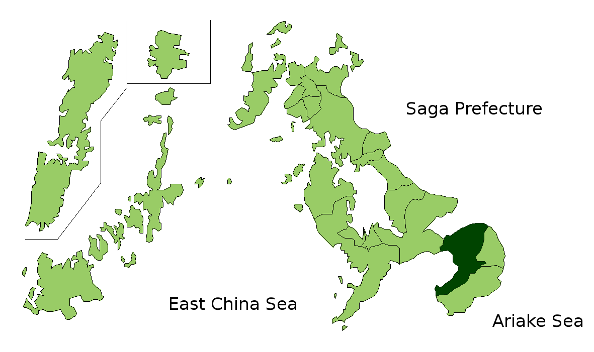 Map of Nagasaki Prefecture highlighting Unzen city. Borders of map as of July, 2006. (blank map used from [1]) See also Image:NagasakiMapCurrent.png.